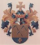 Familie crest Niemeijer